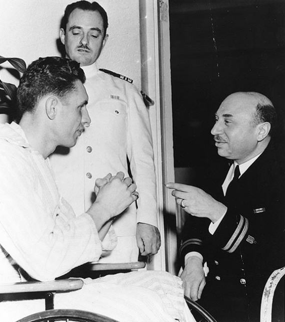 Pharmacist's Mate Edward Bykowski, USN, receives a visit from Lieutenant Joshua L. Goldberg, USNR, Jewish Chaplain for the Third Naval District, on 10 February 1943. Bykowski is telling Lt. Goldberg of his rescue after he had been blown overboard from USS Vincennes (CA-44) when she was sunk on 9 August 1942, during the Battle of Savo Island. Both of his legs were broken. Looking on is Lieutenant Commander Ferold D. Lovejoy, USNR (Medical Corps).